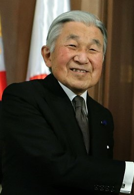 Emperor Akihito of Japan